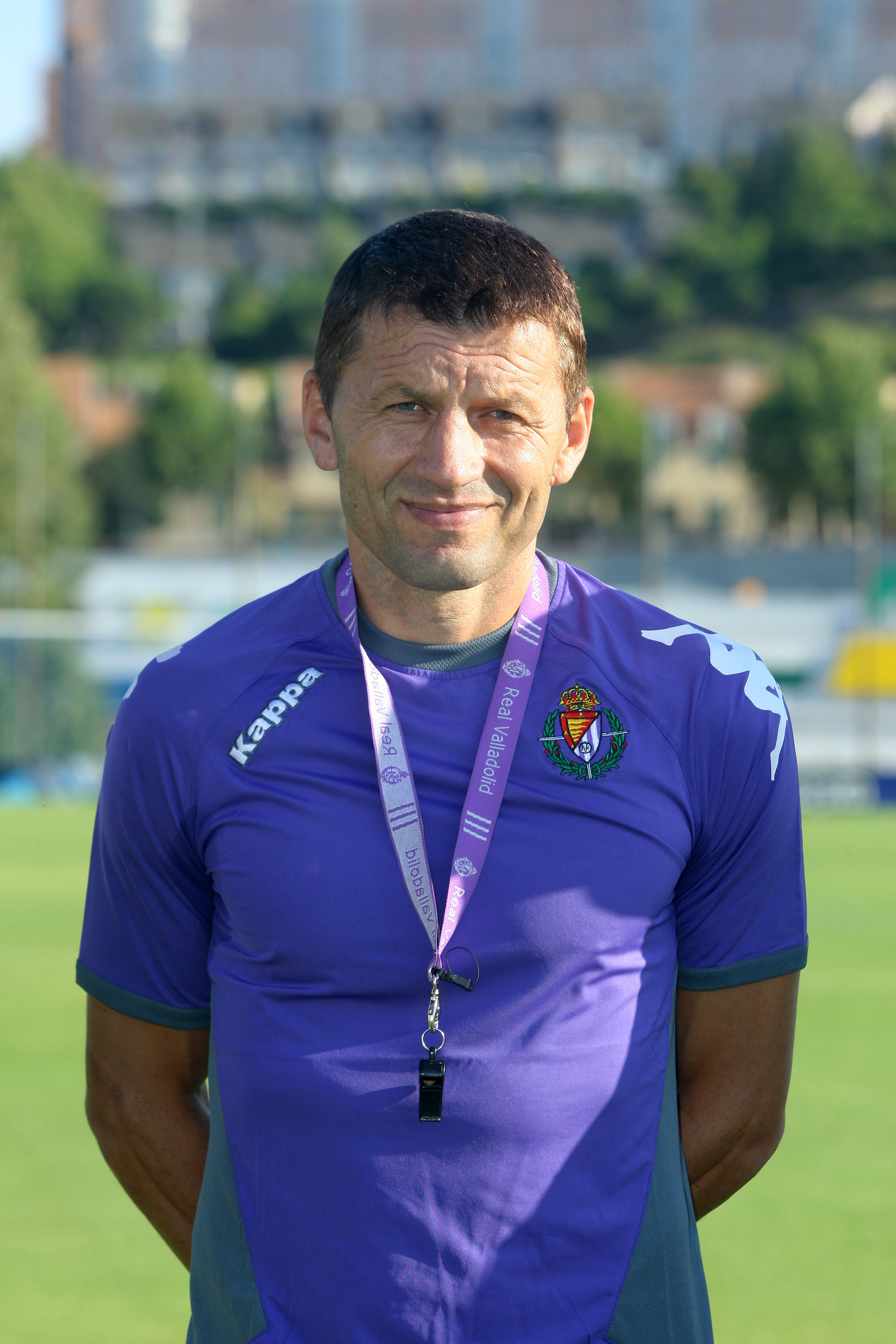 Miroslav Djukic, as Real Valladolid coach.